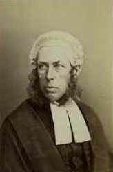 Robert Porrett Collier, 1er baron Monkswell (1817-1886). Juriste et homme politique britannique. CDV, tirage albuminé, 6 x 10.5 cm. Circa 1870. Vintage albumen cdv print, original.